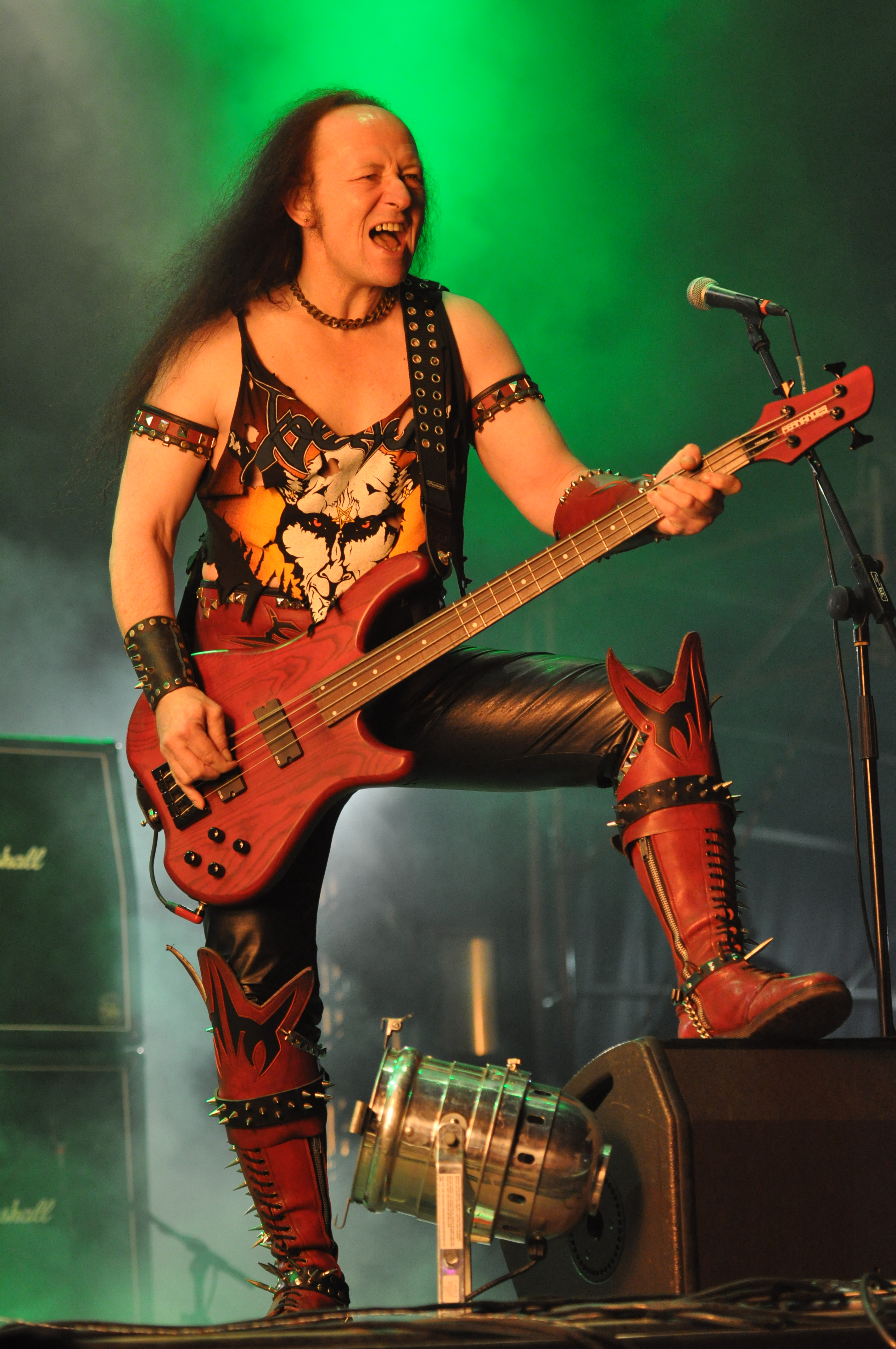 Venom at Party.San Metal Open Air 2013